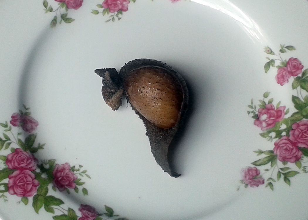 Sapu mhicha, leaf tripe stuffed with bone marrow and boiled and fried, is a special dish in Nepal.